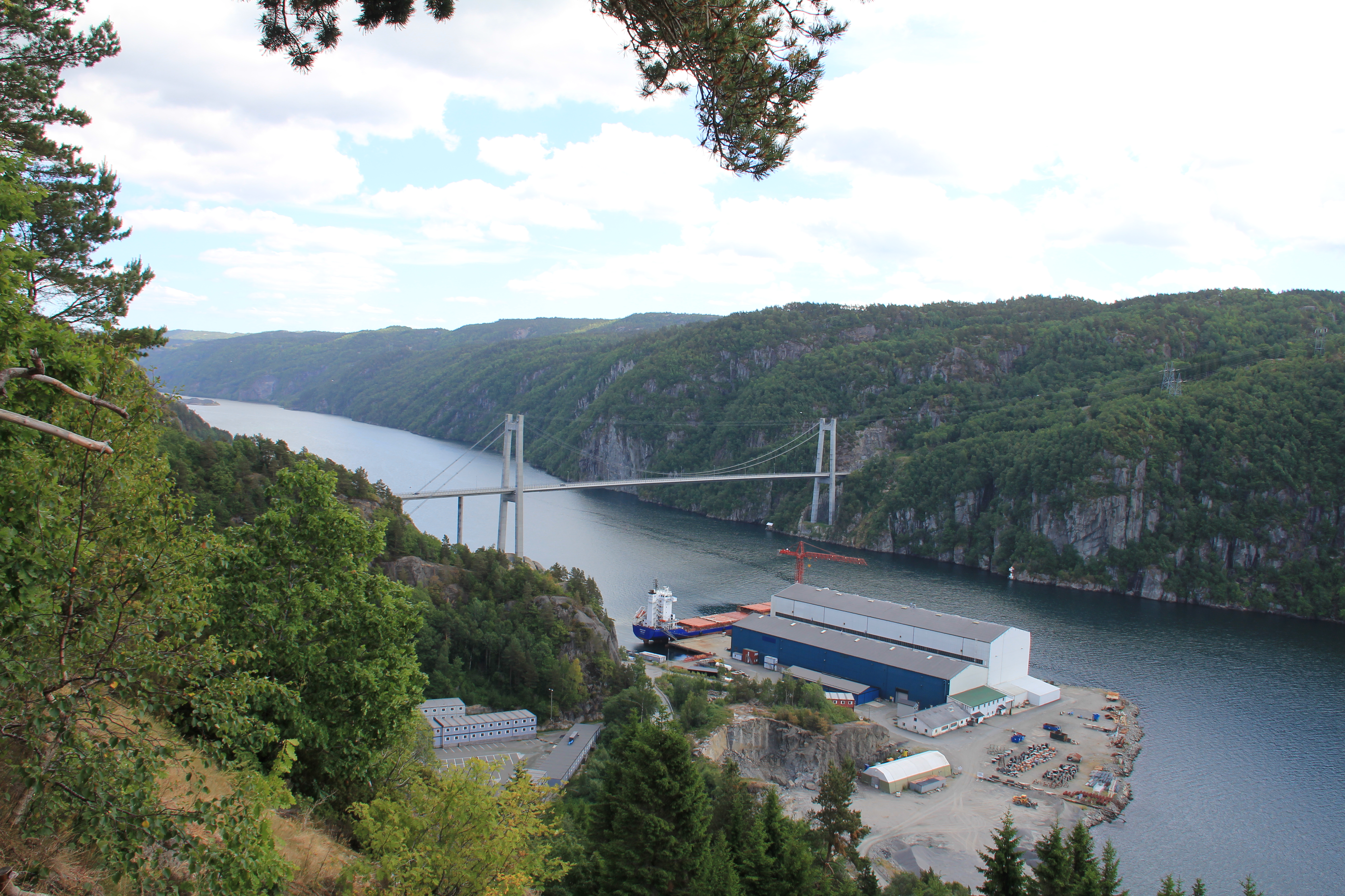 Fedafjorden bru. The suspension bridge over Feda fiord, in Kvinesdal Aust-Agder, westview.